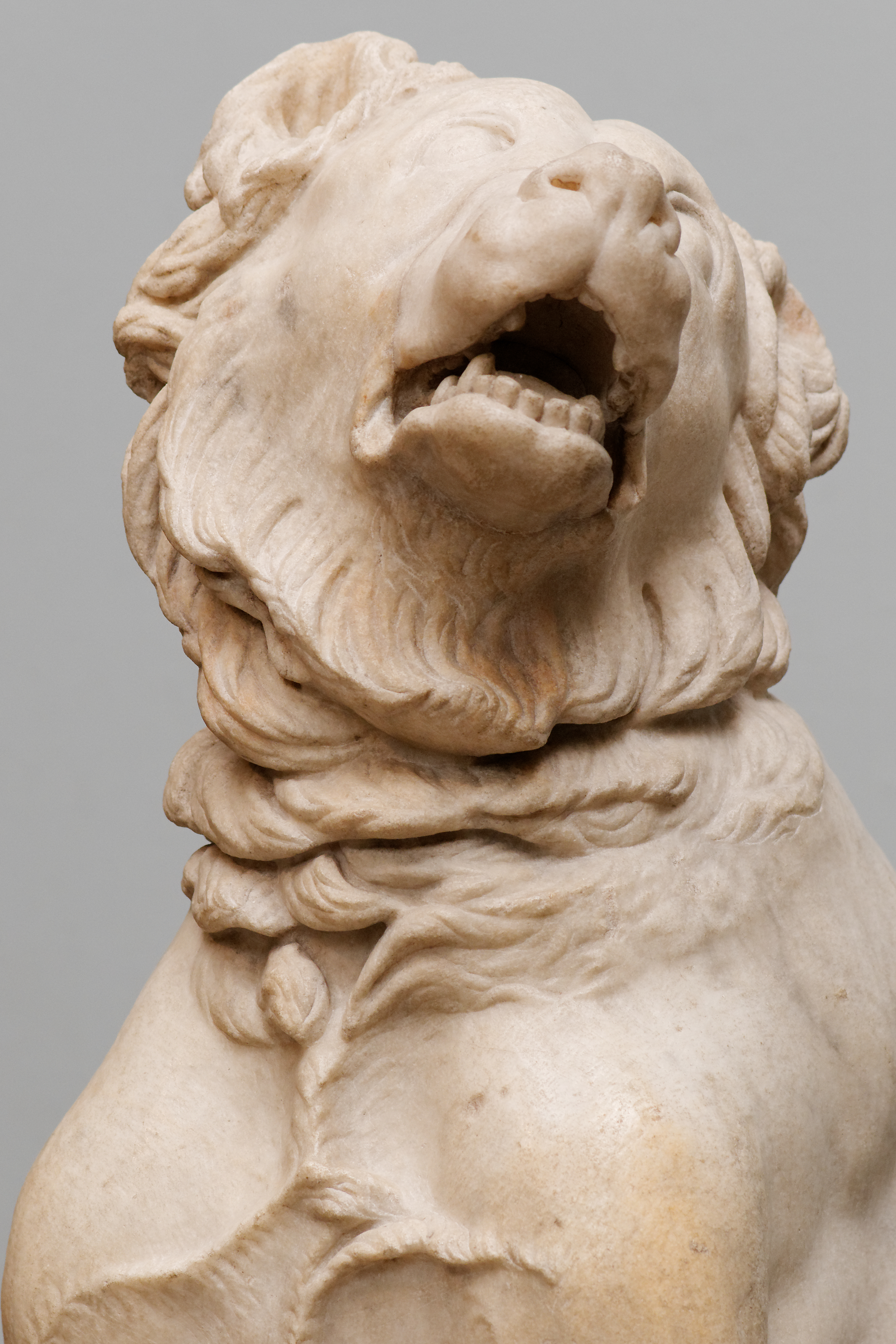 Statue of a Molossian hound. Roman copy after a Hellenistic bronze original; the muzzle and one leg are restorations.